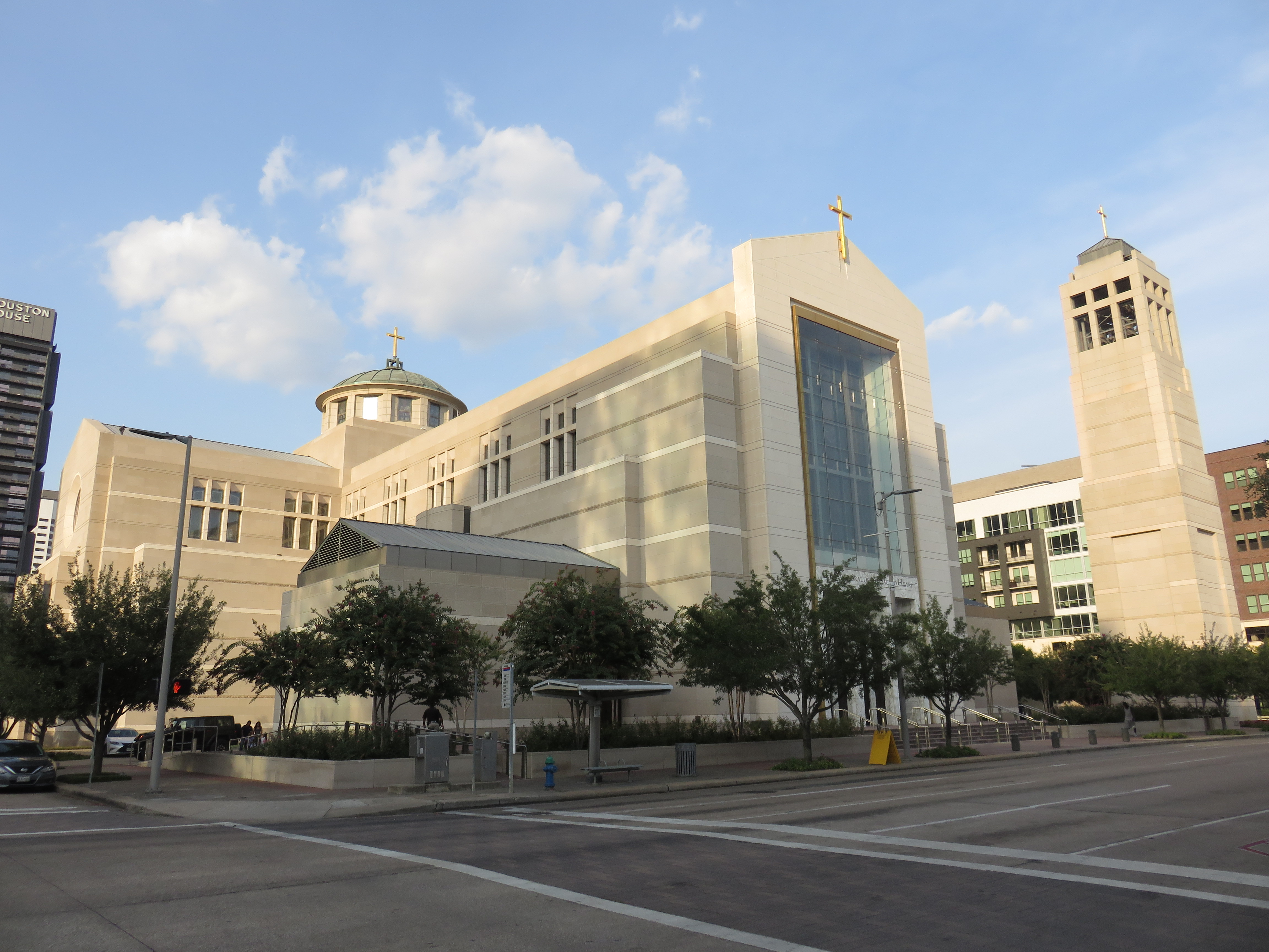 Co-Cathedral of the Sacred Heart in Houston, Texas in 2018